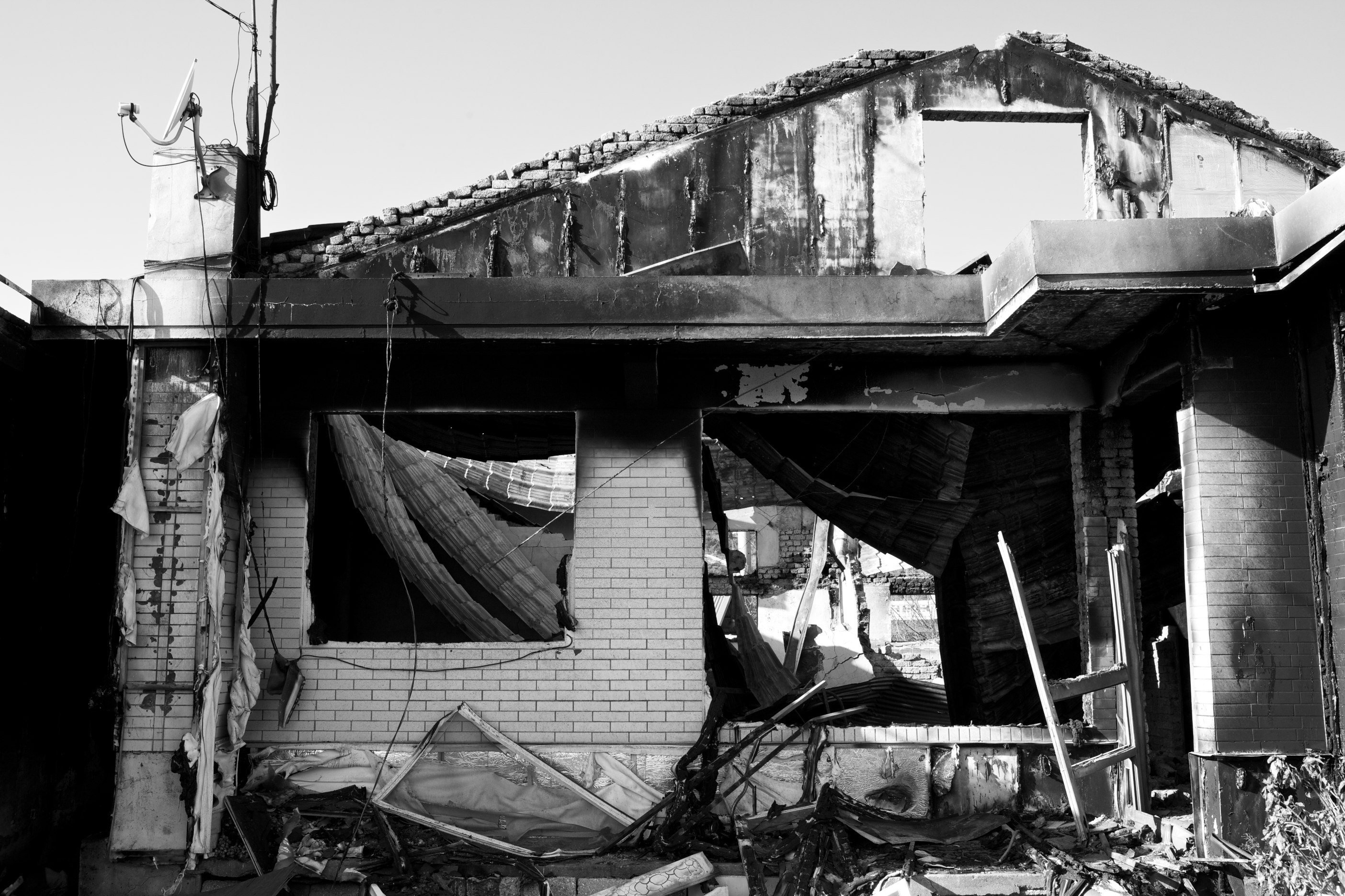 Fire damage on Yeonpyeong Island after the North Korean artillery bombardment, November 2010.